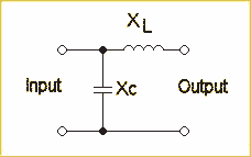 Basic network for the ATU page